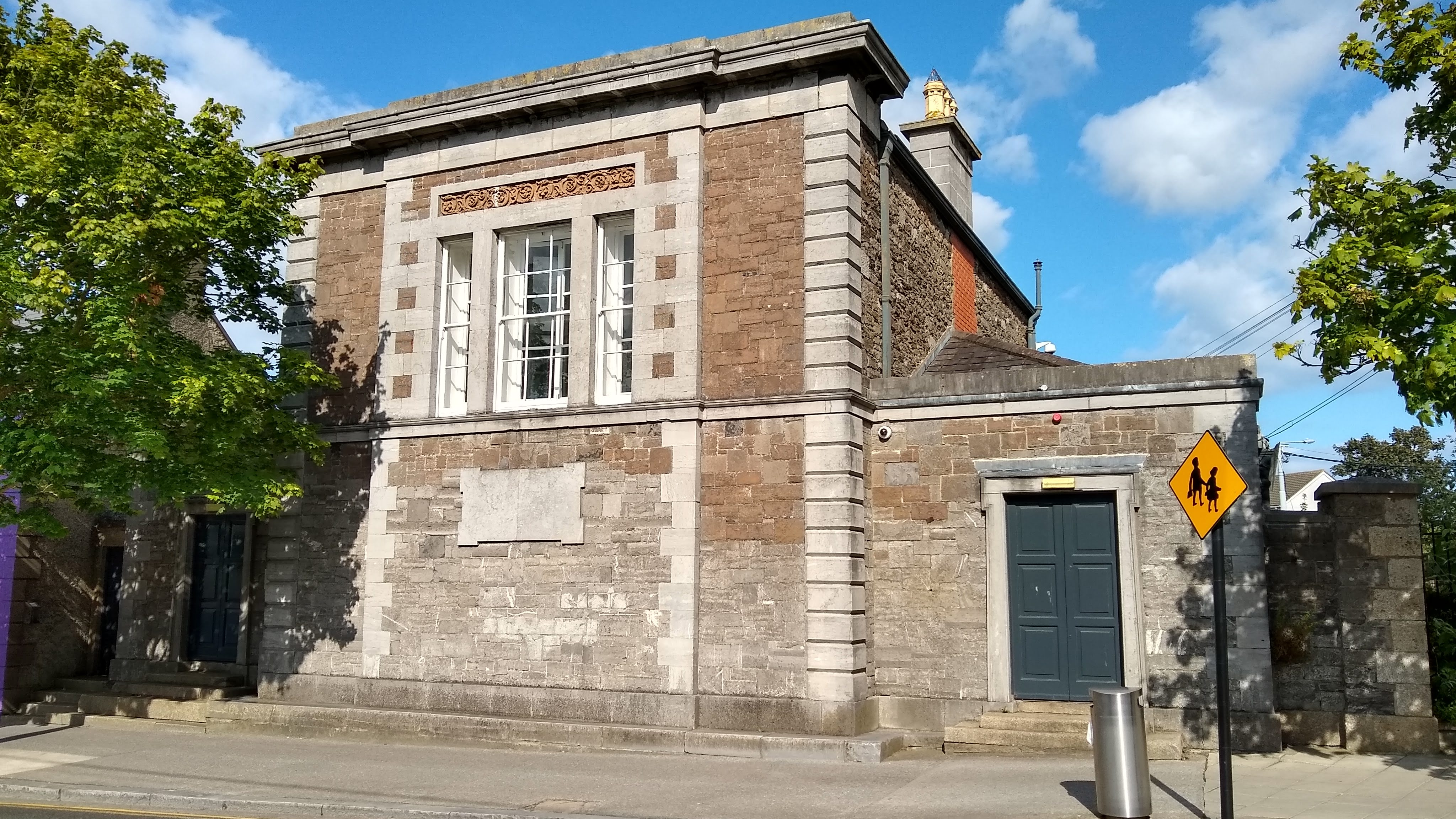 The Court House in Swords on North Street.